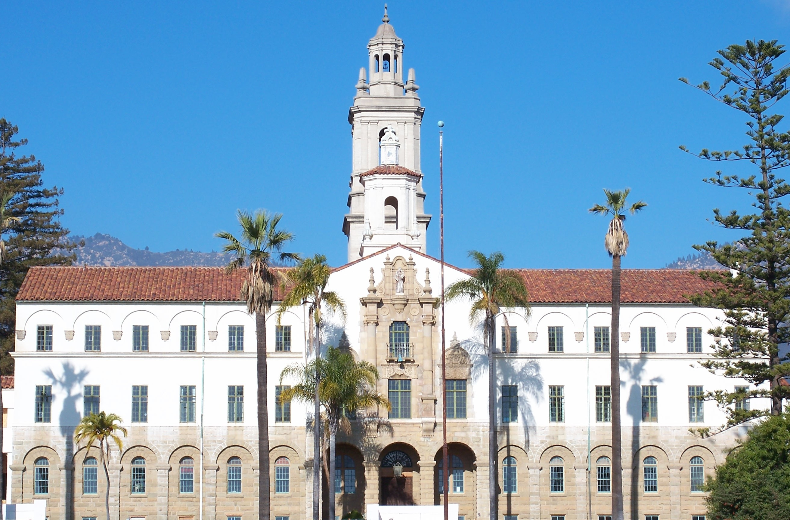 Saint Anthony's seminary. 2300 Garden Street. Santa Barbara, California, USA